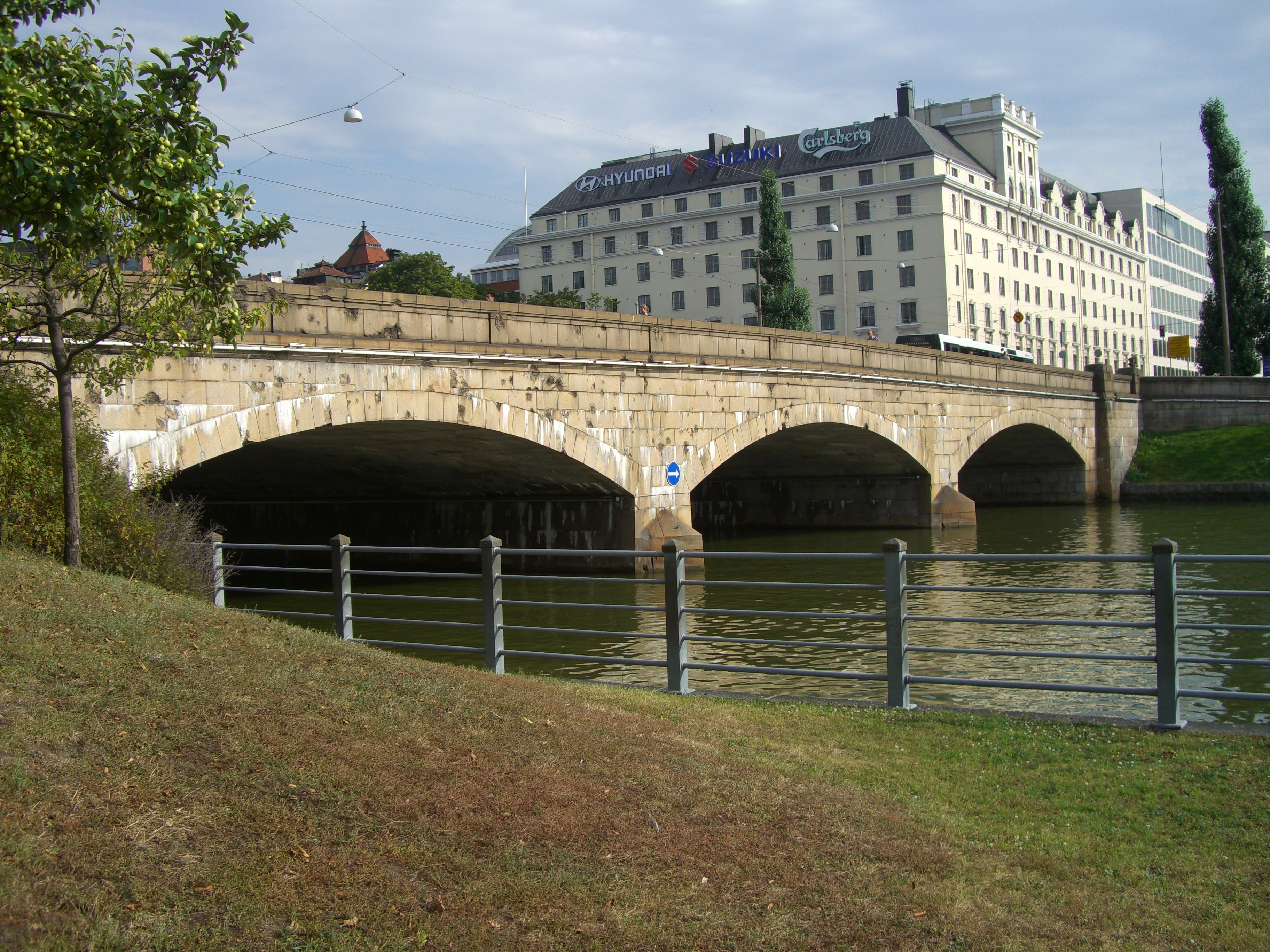 The Pitkäsilta bridge in Helsinki, Finland